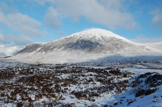 Beinn a' Chrulaiste Beinn a' Chrulaiste from the A82 near White Corries entrance road.